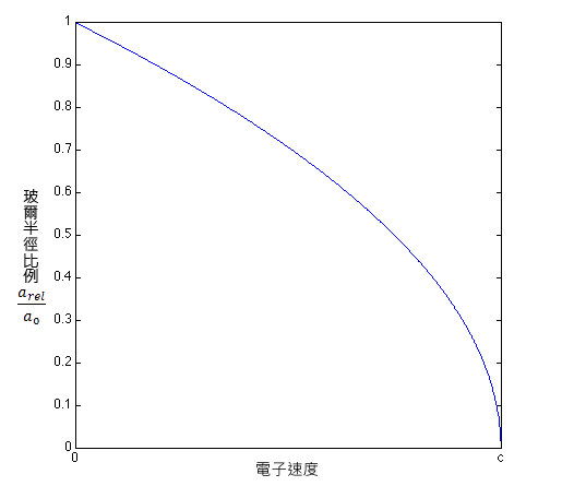 Fraction of relativistic and uhrelativistic Bohr radius as a function of the electron velocity